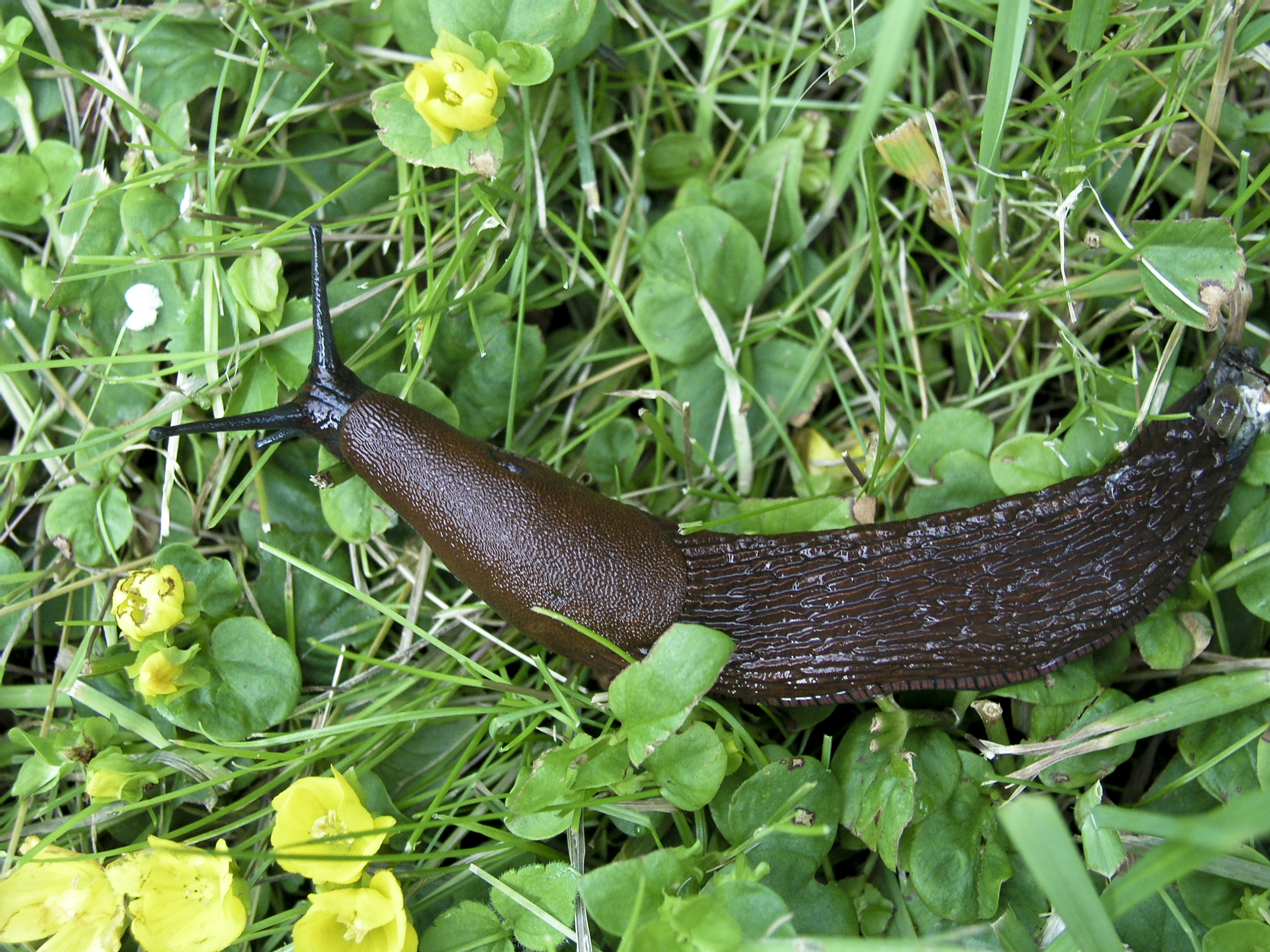 Arion vulgaris, Spanish slug. Photo was taken in Stockholm, Sweden.